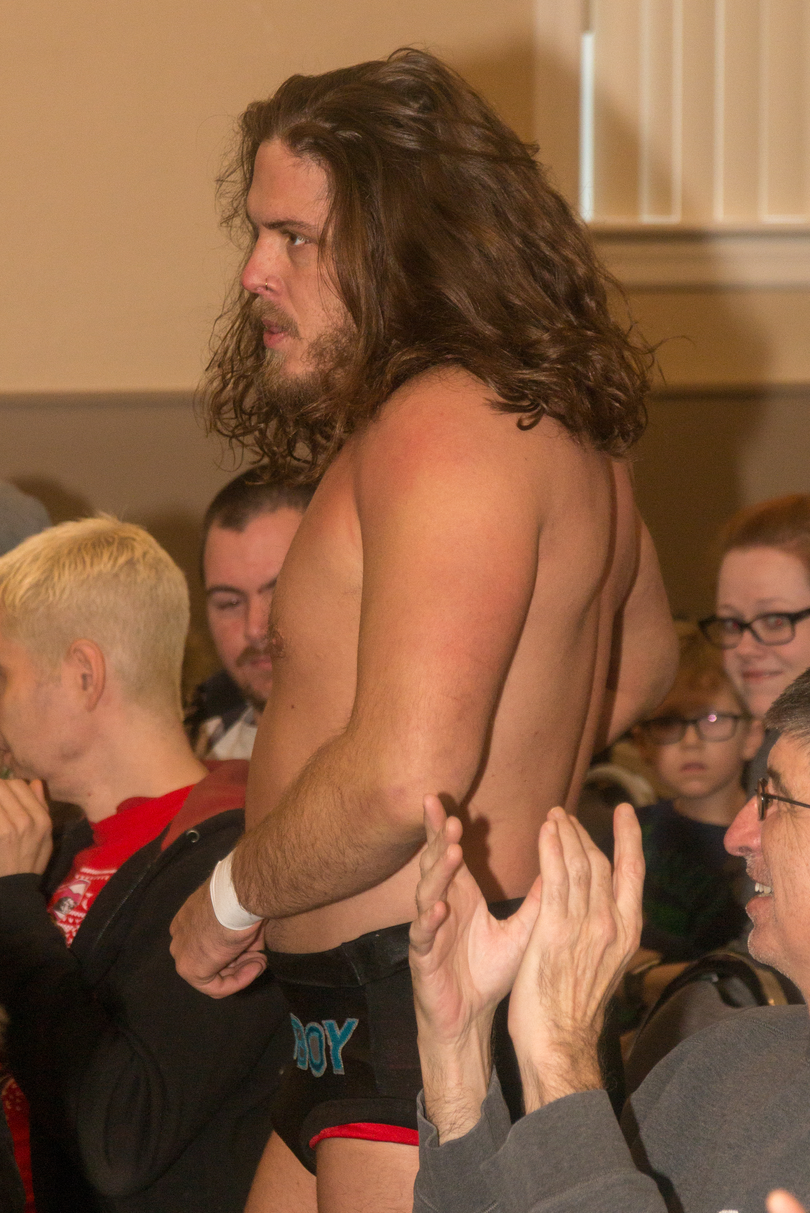 Joey Janela making hi ring entrance at an Alpha One show in Oshawa, ON